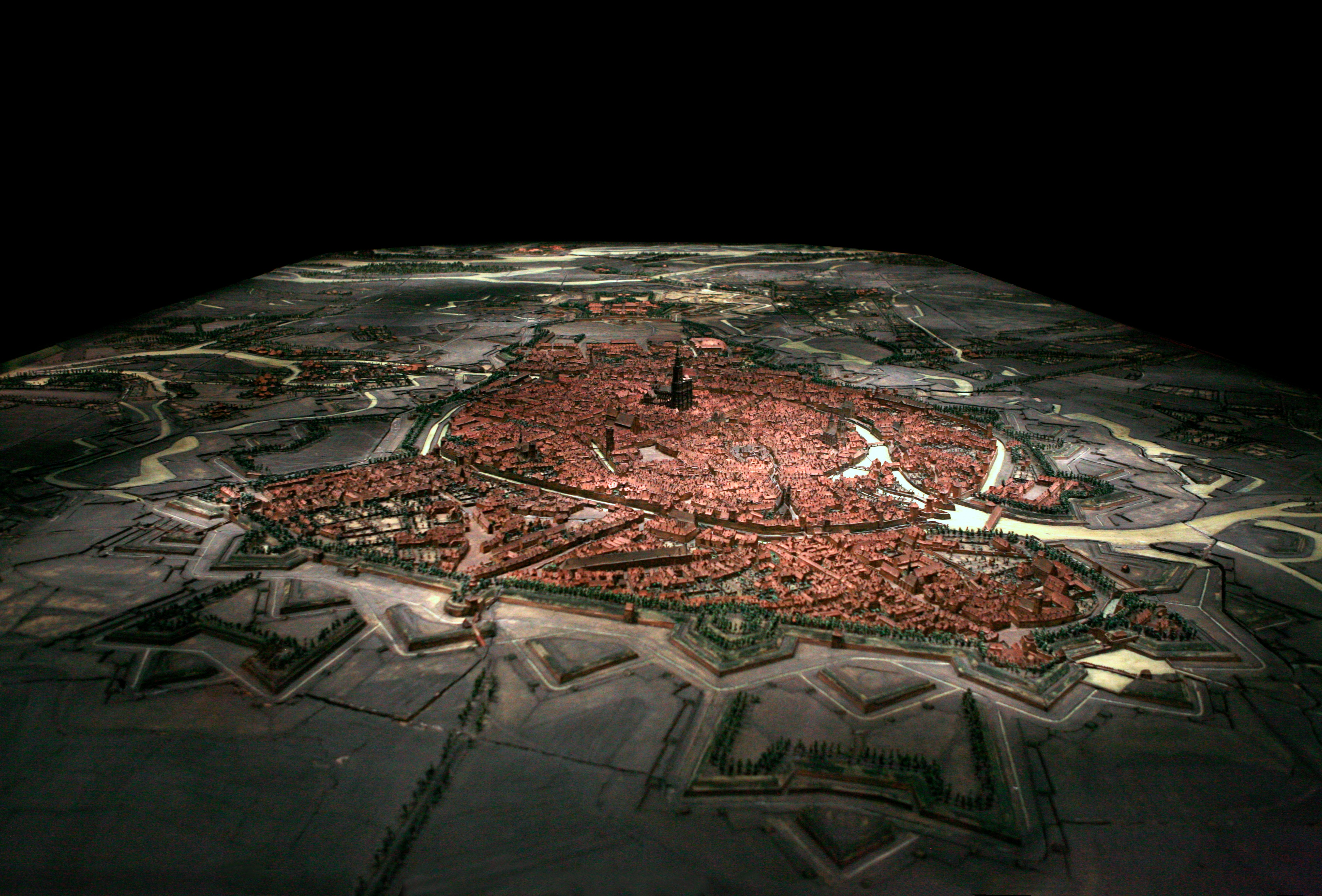 Plan-relief of Strasbourg. Made by engineer Ladevèze on a request of Louis XV. Stored in Paris from 1727 to 1815; taken as prize of war to Berlin until 1901; brought back to Strasbourg in 1902